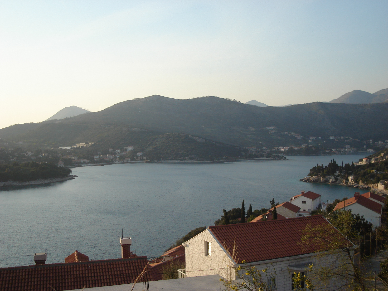 Croatian village Zaton near dubrovnik